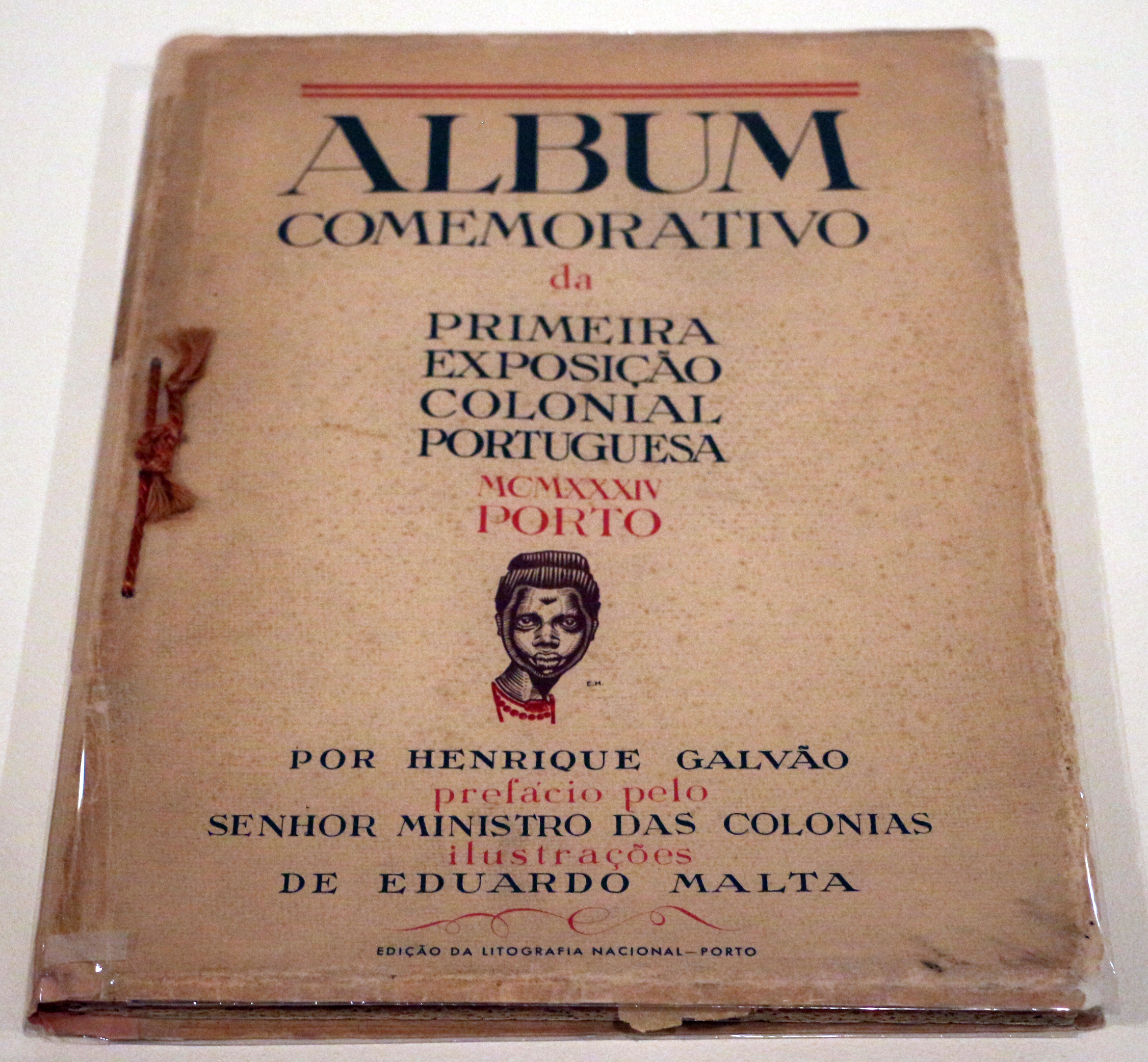 Calouste Gulbenkian Museum